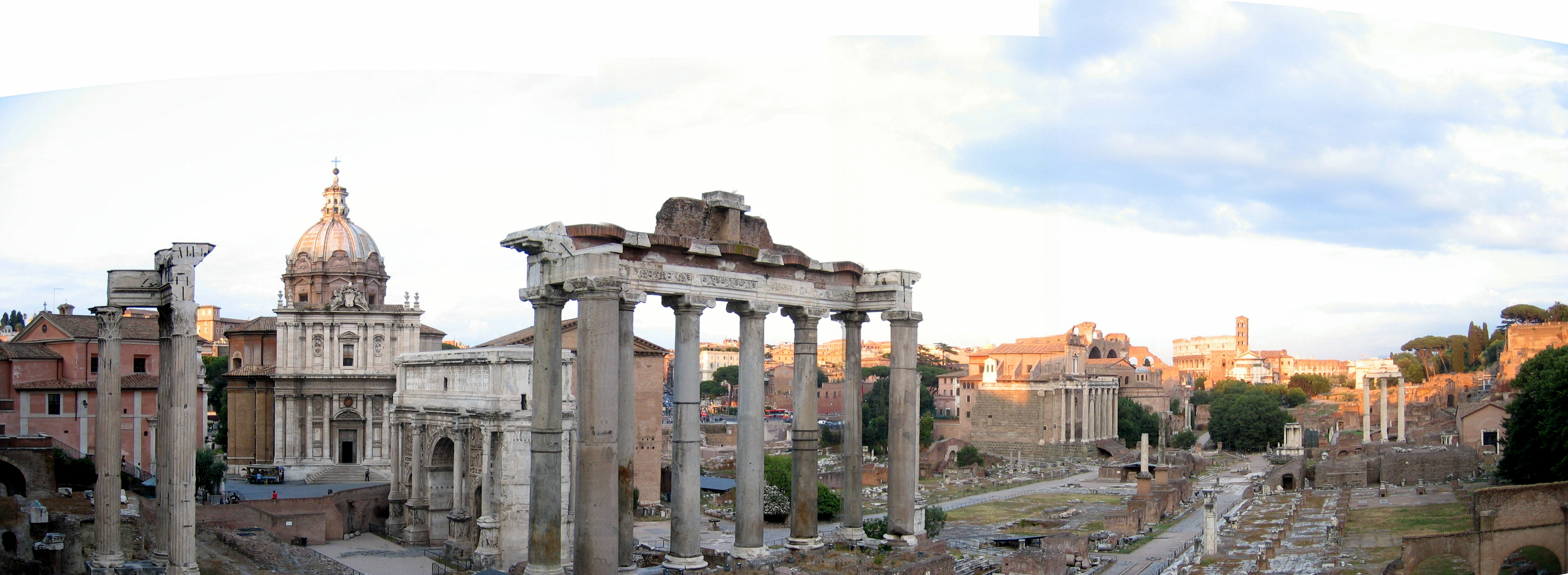 Roman Forum, Rome, Italy taken on 7/8/2006 by --Bjsamelsonjones 23:10, 25 July 2006 (UTC). 3 pictures stitched together. Temple of Vespasian on the left, Arch of Septimius Severus behind the remains of the Temple of Saturn in the foreground. On the right are the three columns of the Temple of Castor and Pollux and the Palatine Hill, and slightly to the left of these is the Chiesa di San Lorenzo in Miranda. In the distance, the Colosseum and the Arch of Titus are visible.